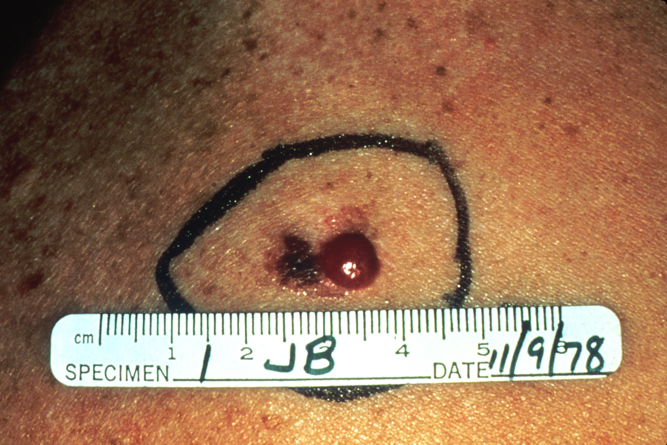 Title: Pathology: Patient: Melanoma Description: This is advanced malignant melanoma. At the left, one can see a plaque of early, radial growth phase superficial spreading melanoma. To the right, and contiguous with the plaque, is a pink (amelanotic) nodule of deeply invasive vertical growth phase melanoma. Melanomas diagnosed at this stage have a poor prognosis; many of these patients develop metastatic disease and die from their cancer. In the majority of instances, the plaque stage of melanoma is present for a sufficient period of time to permit its diagnosis and removal before it progresses to a more advanced (and more difficult to treat) stage. Topics/Categories: Pathology -- Patient Type: Color Slide Source: National Cancer Institute Author: Unknown photographer/artist AV Number: AV-8500-3606 Date Created: 1985 Date Entered: 1/1/2001 Access: Public